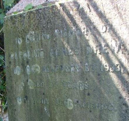 Photo of an inscription containing the words PERTRANSIIT BENEFICIENDO on the memorial to Caroline Agnes Drew. The memorial also to her father Joseph Drew, mother Caroline Agnes Drew, and brother Henry Drew, at Melcombe Regis Cemetery, Weymouth, Dorset, UK